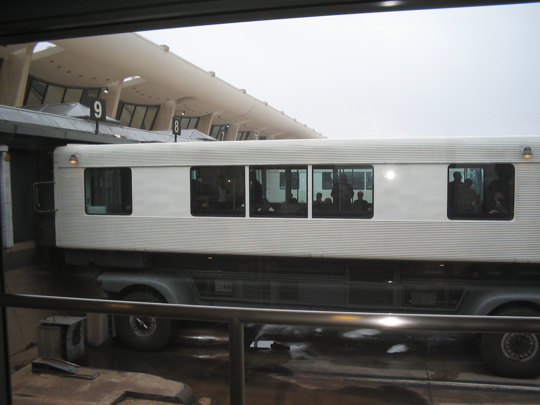 A mobile lounge at Washington Dulles International Airport, loading passengers at the main terminal. In the background the main terminal, designed by renowned architect Eero Saarinen. David Benbennick took this picture on Friday, April 22, 2005 at 5:10 PM (local time).